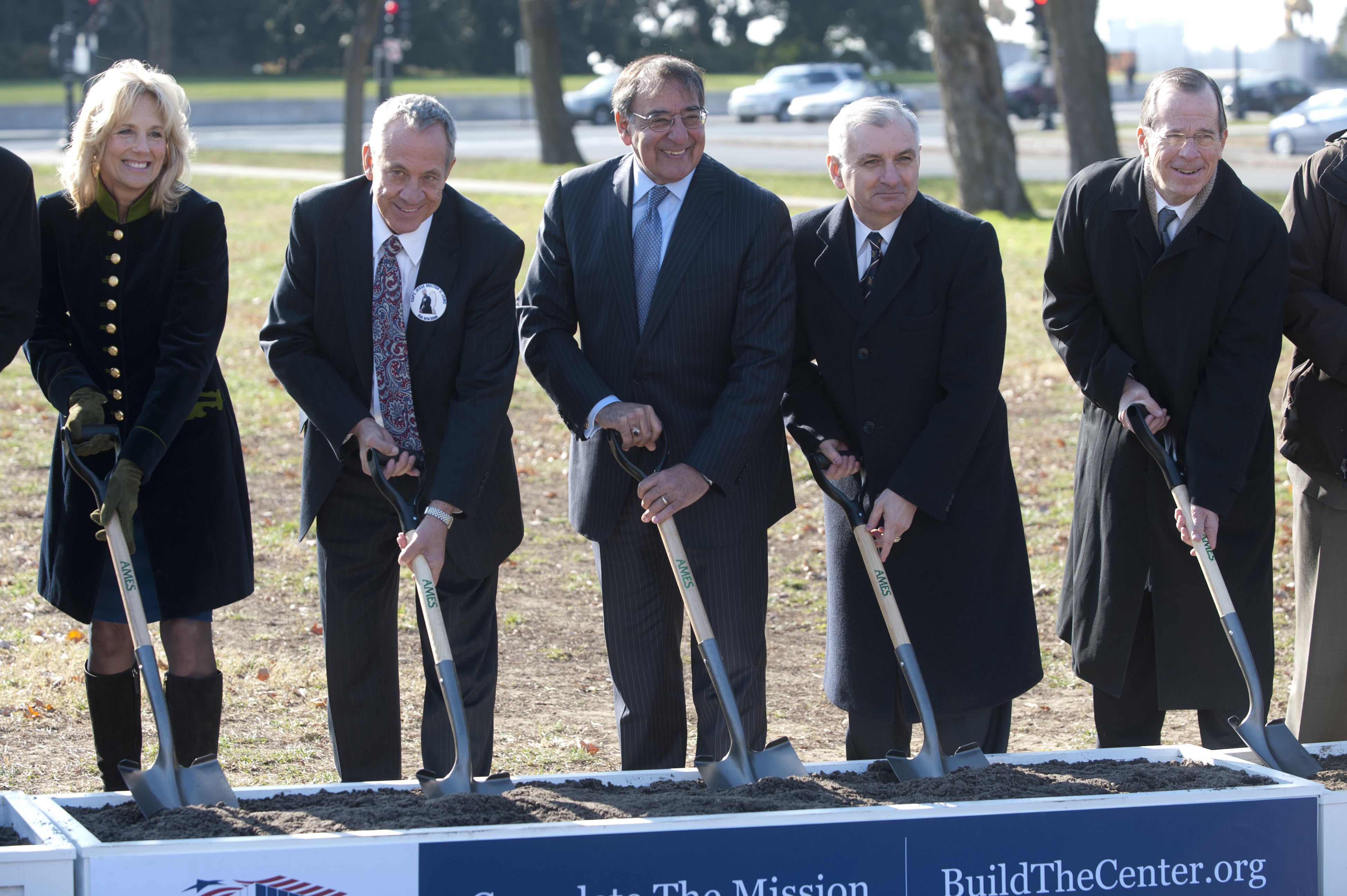 From left, Dr. Jill Biden; Jan Scruggs, the founder of the Vietnam Veterans Memorial; Secretary of Defense Leon E. Panetta; Sen. Jack Reed and former Chairman of the Joint Chiefs of Staff U.S. Navy Adm. Mike Mullen participate in a groundbreaking ceremony for The Education Center at The Wall in Washington, D.C., Nov. 28, 2012. (DoD photo by Mass Communication Specialist 1st Class Chad J. McNeeley, U.S. Navy/Released)